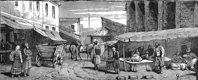 The main commercial street of Plovdiv, 1885